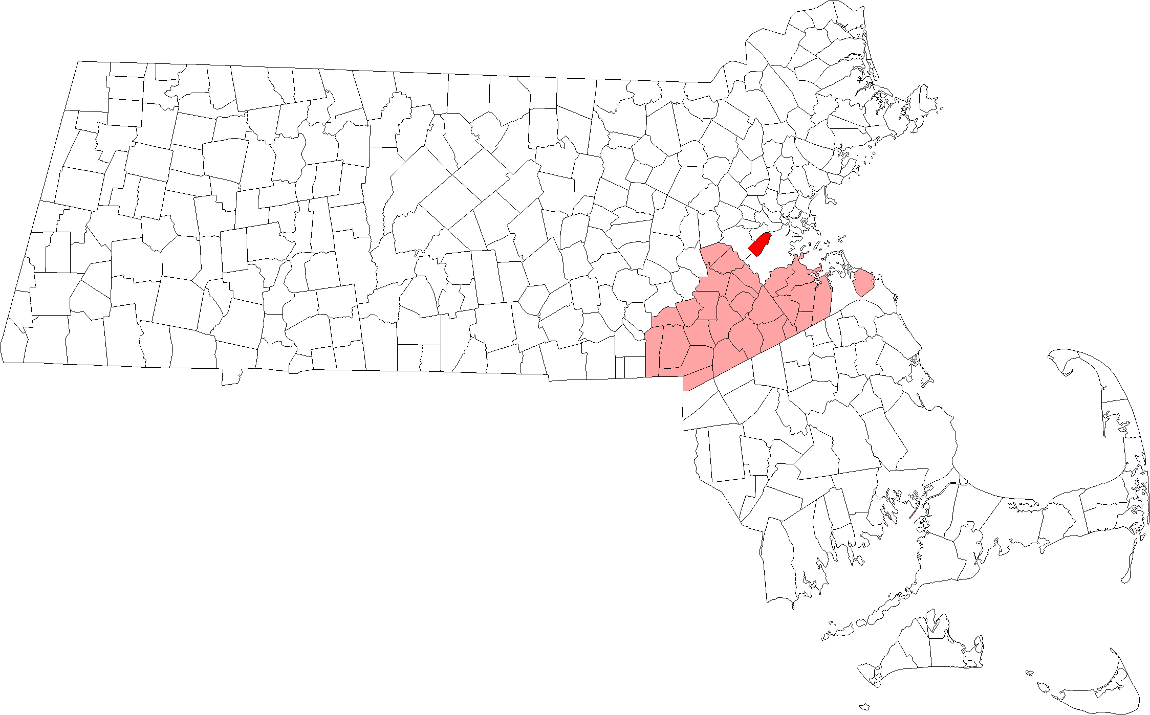 Location of Brookline in Norfolk County, Massachusetts